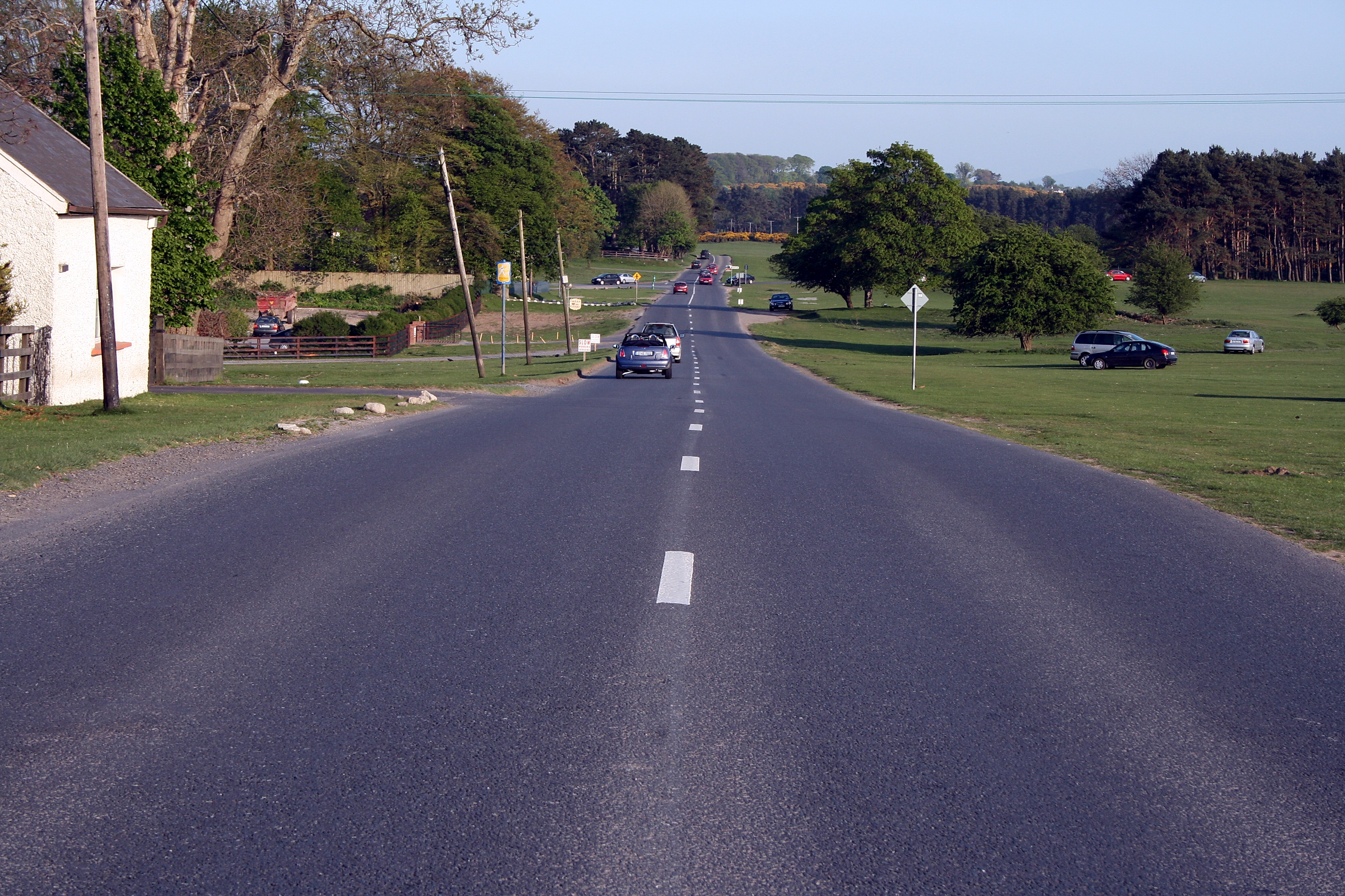 The R413 road near Newbridge, County Kildare in Ireland, passing along the northern edge of the Curragh. Note the photographer risked life and limb to capture this shot for Wiki. (Sarah777 11:10, 25 August 2007 (UTC))